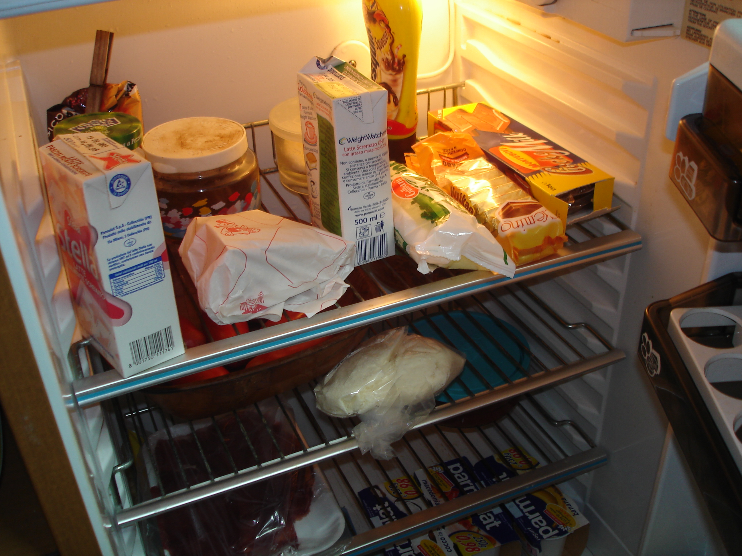 Domestic Refrigerator. Model Ariston, Italy, 1980. It contains: fully and partially skimmed milk, jam, ground coffee, fat and grated cheeses, biscuits, a bowl of tomatoes, bresaola, yogurt.